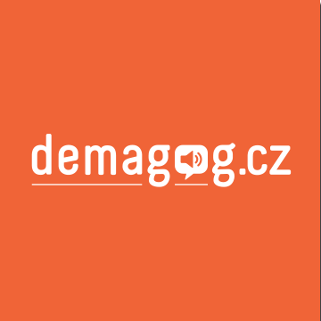 This is a logo of the project Demagog.cz.